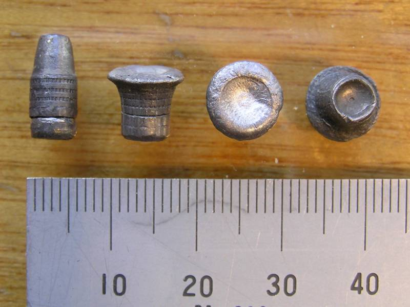 An unfired and 3 fired .22 calibre Winchester SuperX Subsonic Hollow point bullets, recovered after being fired into water.